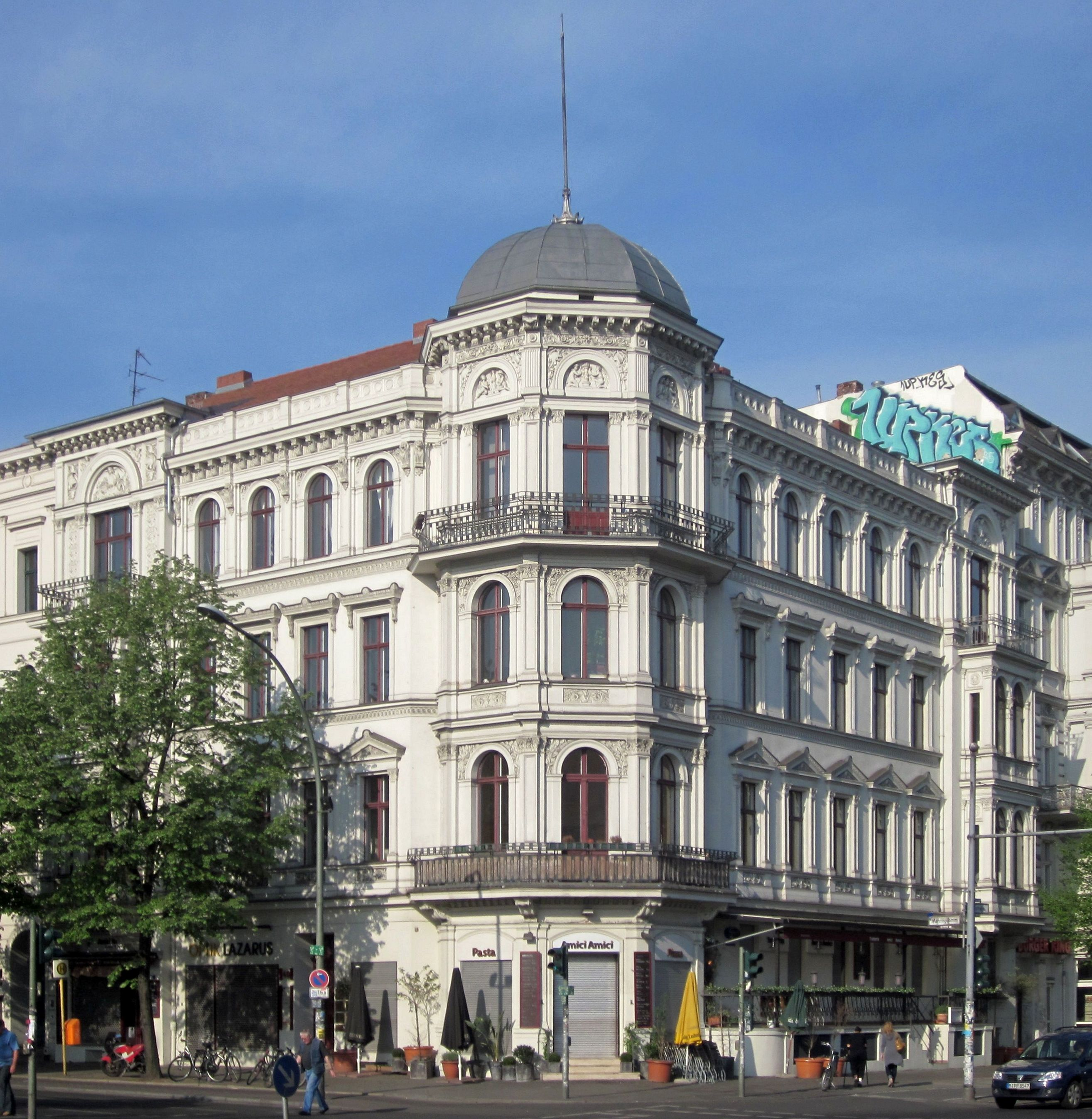 Residential building Mehringdamm No. 40, corner of Yorckstraße (on the right), in Berlin-Kreuzberg. The house was built in 1868 by Wilhelm Riehmer. It has been designated as a cultural heritage monument.